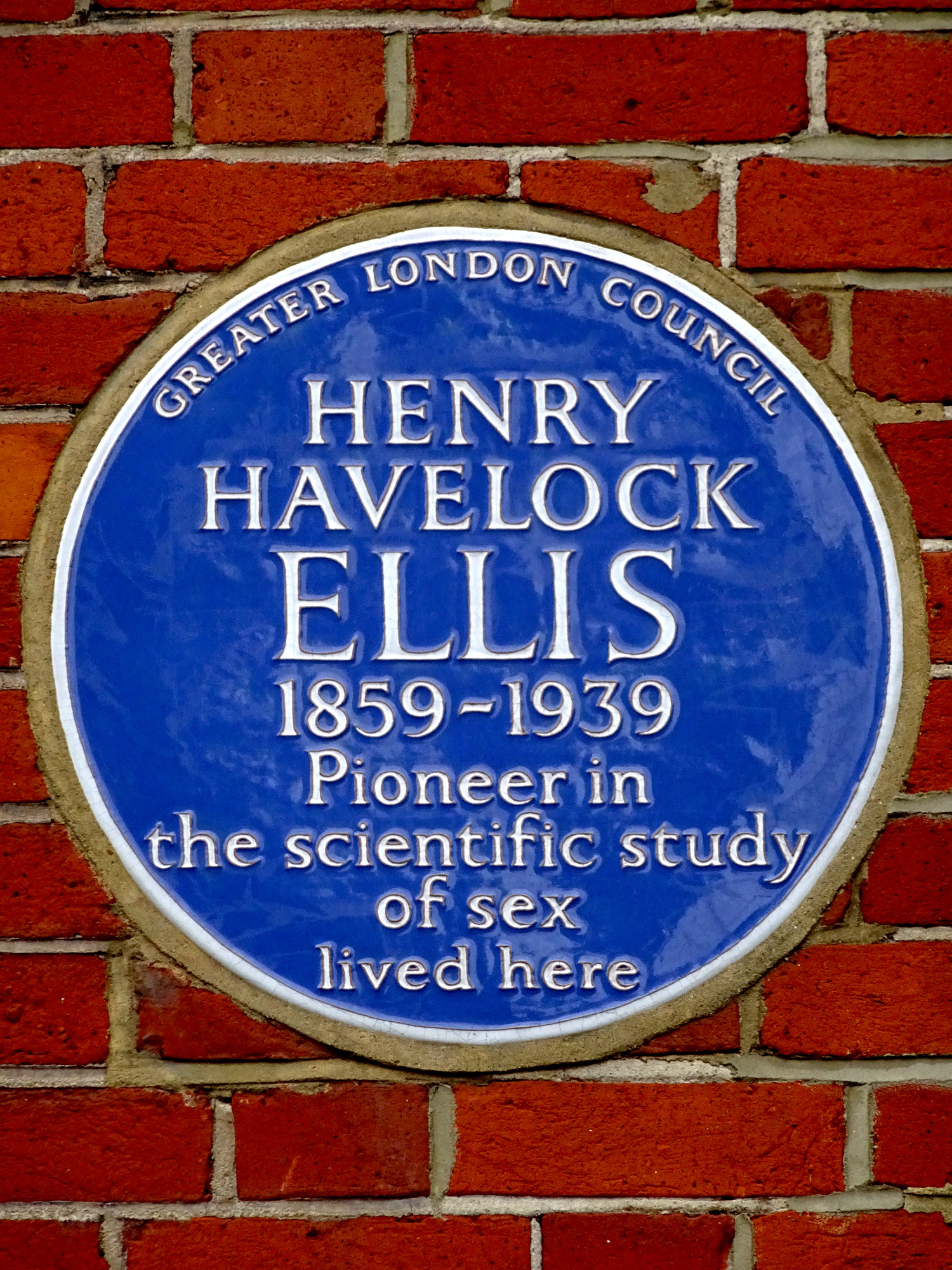 Blue plaque erected in 1981 by Greater London Council at 14 Dover Mansions, Canterbury Crescent, Brixton, London SW9 7QF, London Borough of Lambeth